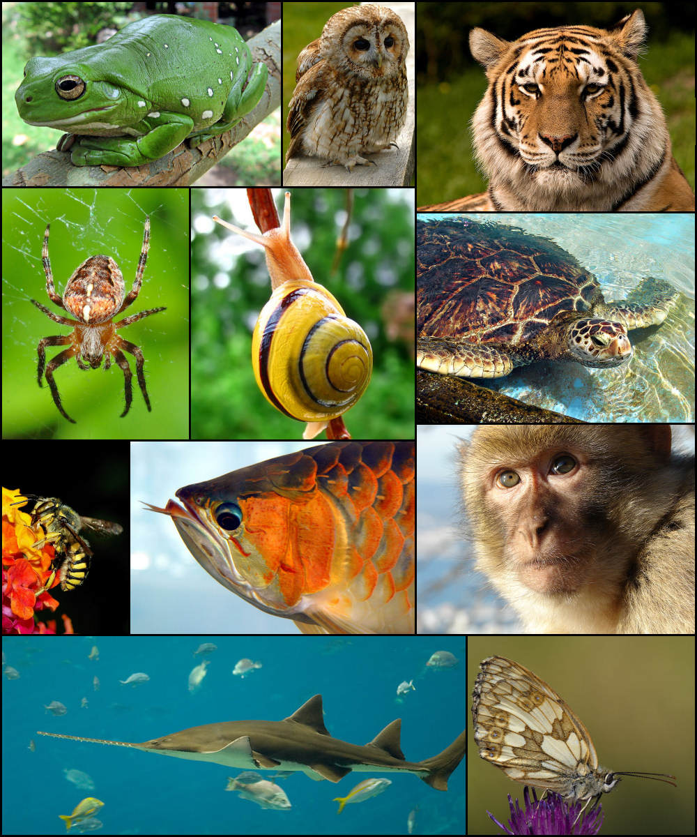 A collage depicting animal diversity using a featured pictures.